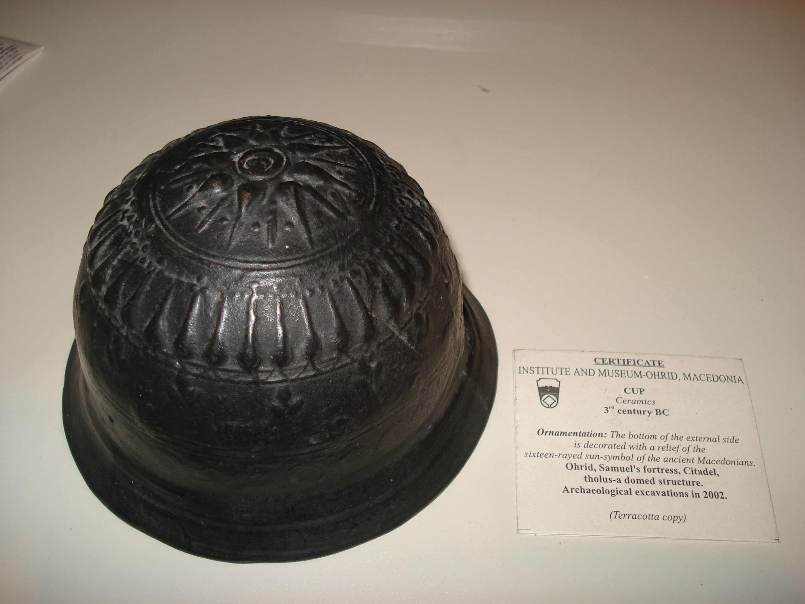 Certified museum terracota copy of a ceramic cup with the Ancient Macedonian sun/star symbol with 16 rays dated 3rd century BC excavated in the Samuil's Fortress in 2002 in Ohrid, Republic of Macedonia by the Institute for Protection of Cultural Monuments and the National Museum of Ohrid. Certificates are also visible and readable in the photo. Photographed and uploaded by Vbb-sk-mk.